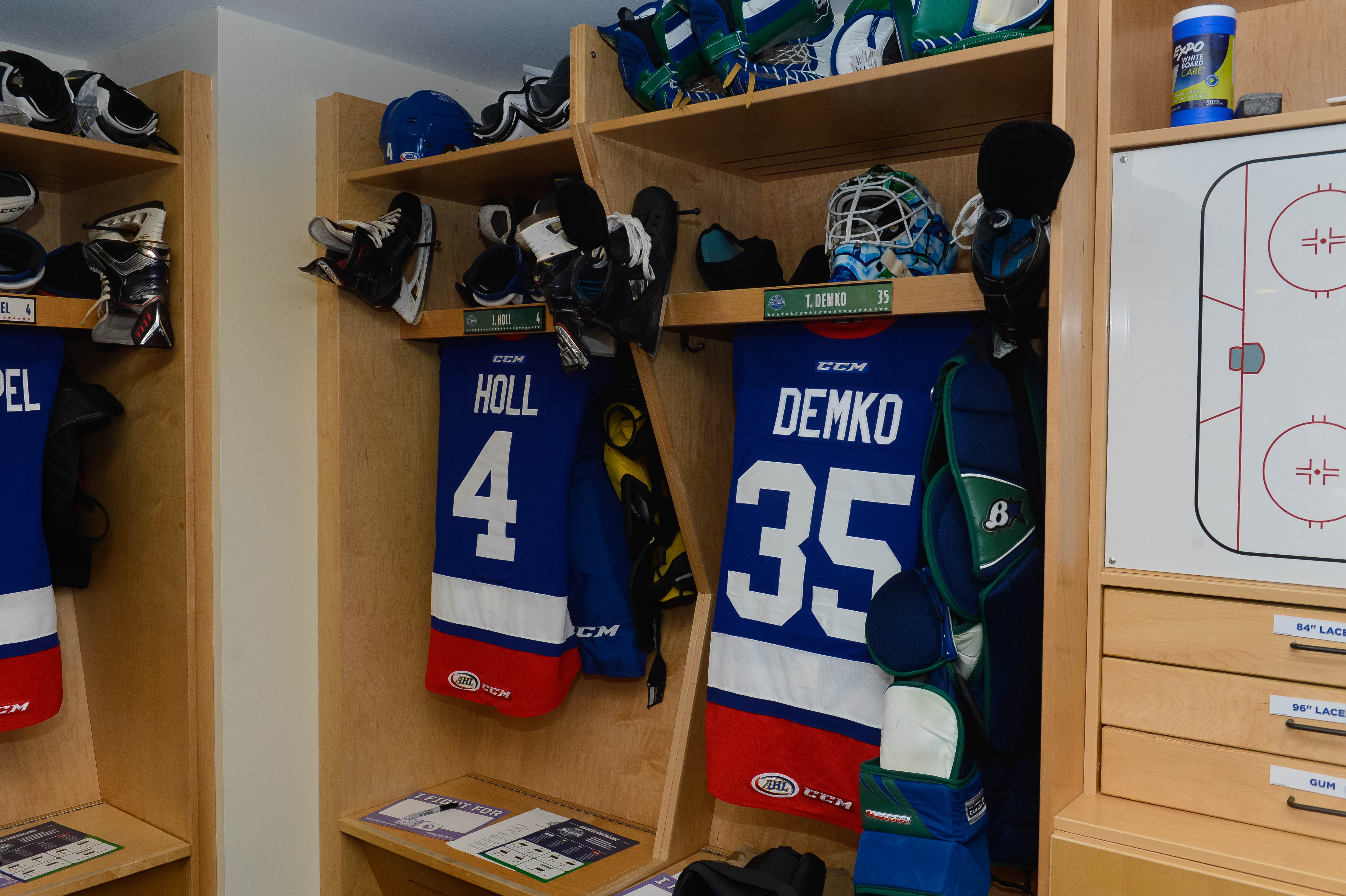 (Lindsay A. Mogle / AHL)